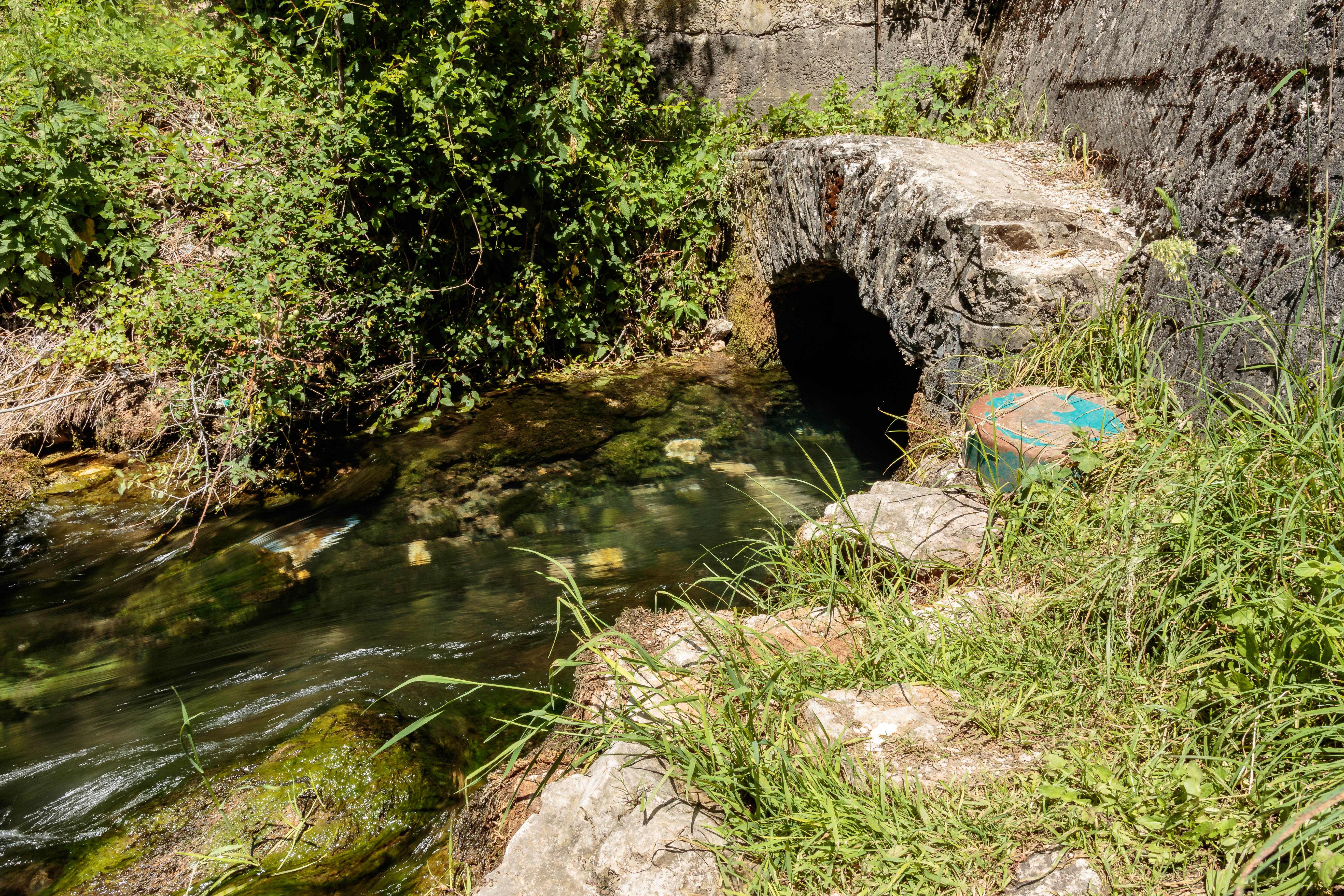 View of the Crna River